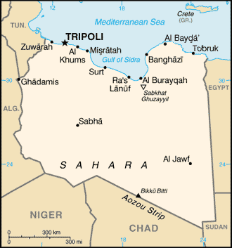 Map of Libya showing major cities.